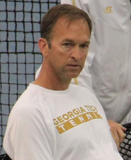 Tennis coach Kenny Thorne, 2014